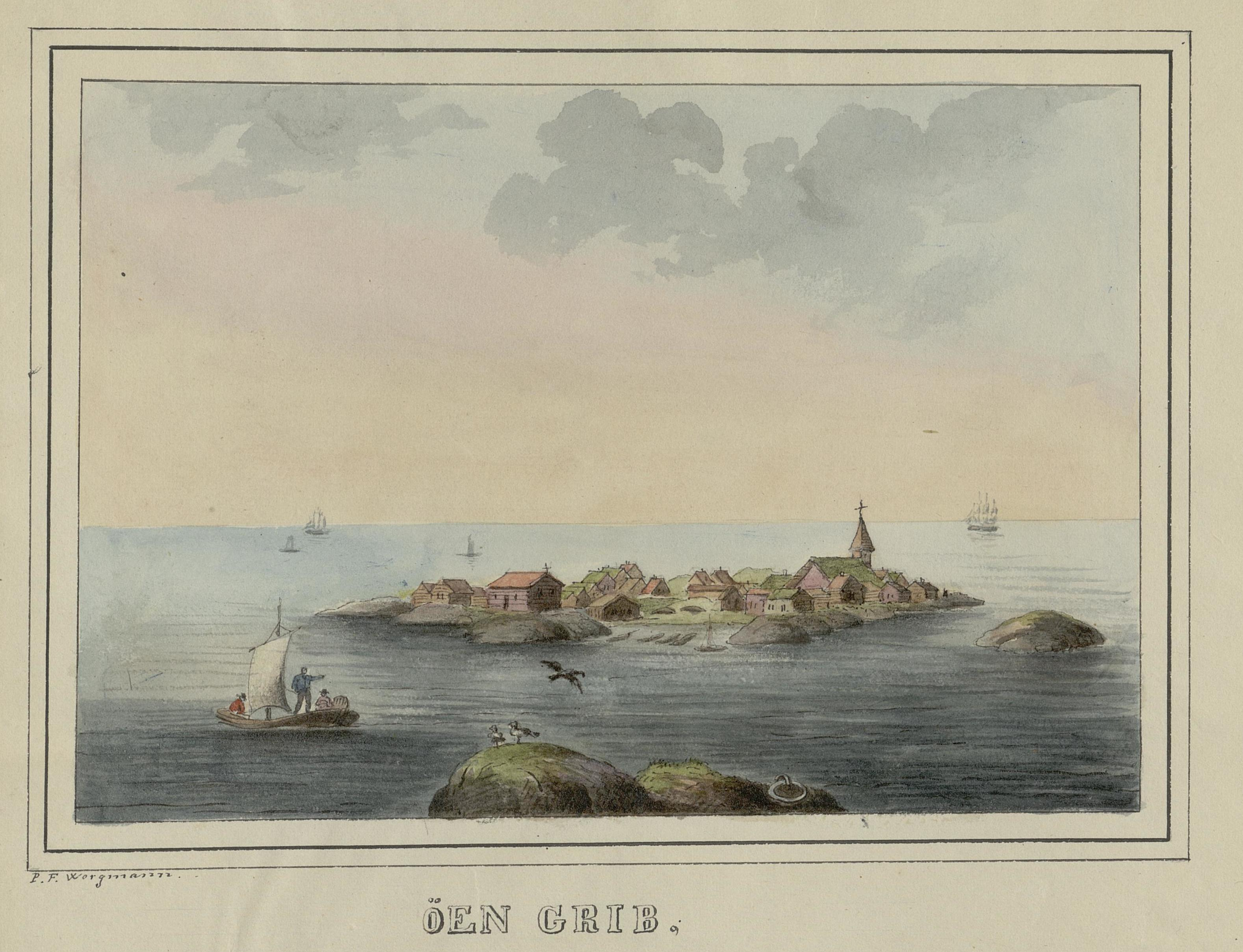 Illustration from the book "Norsk Prospect-Samling" by Wergmann, P.F. and published by P.F. Wergmann (no, 1833-1836)